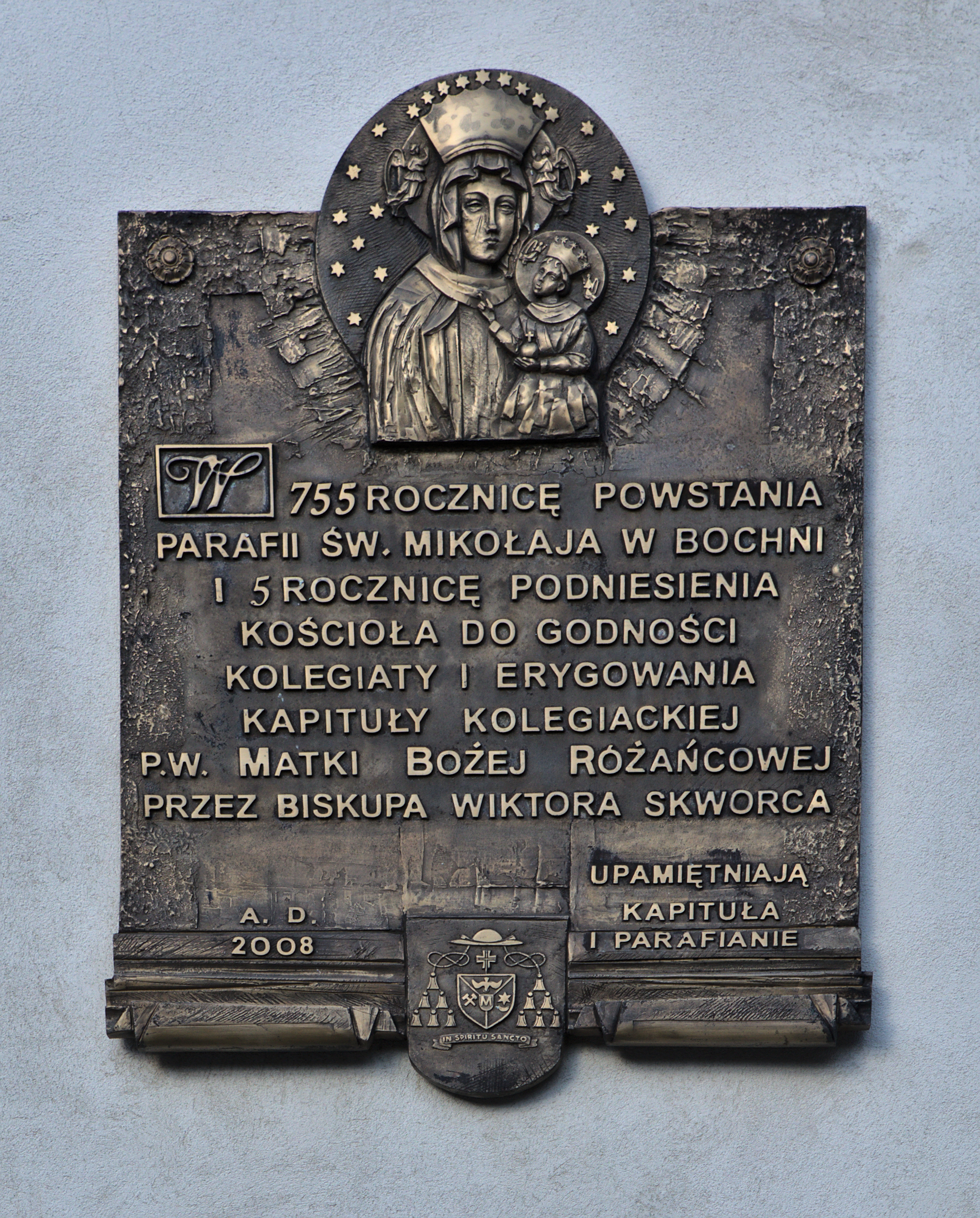 Commemorative plaque placed in 2008 commemorating 755th anniversary of establishment of parish and 5th anniversary of raising the church to the rank of collegiate.